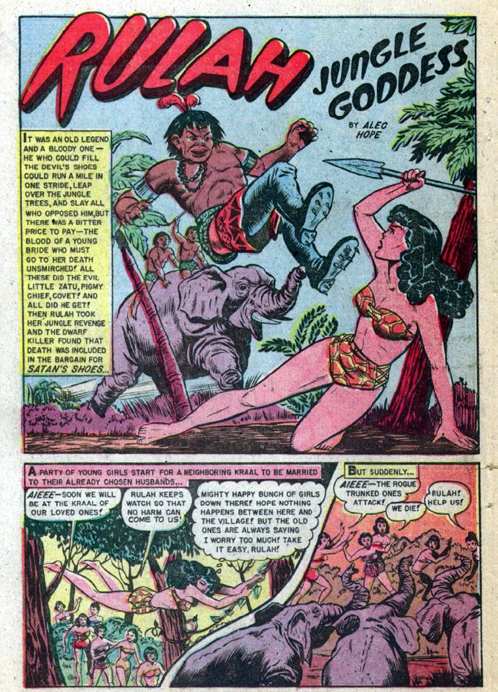 Rulah #24, page 12 March 1949